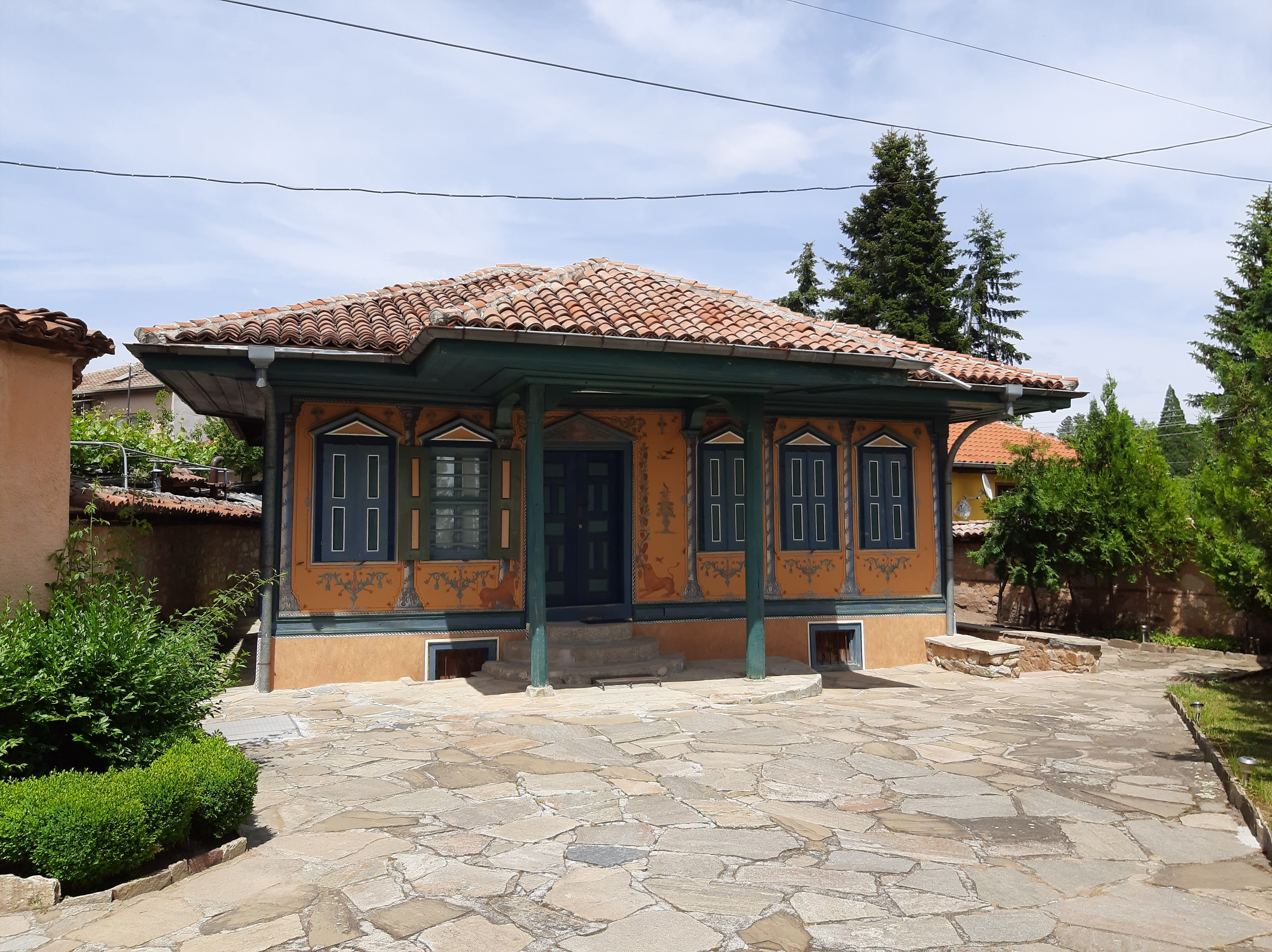 Lekova House in Panagyurishte, Bulgaria